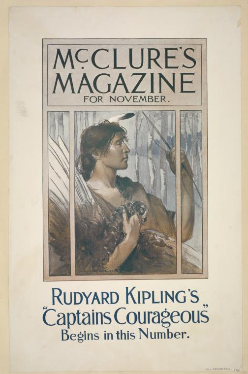 The cover of McClure's Magazine advertising the serialization of Kipling's Captains Courageous in the the issue of November 1896. Courtesy of the New York Public Library Digital Collection.